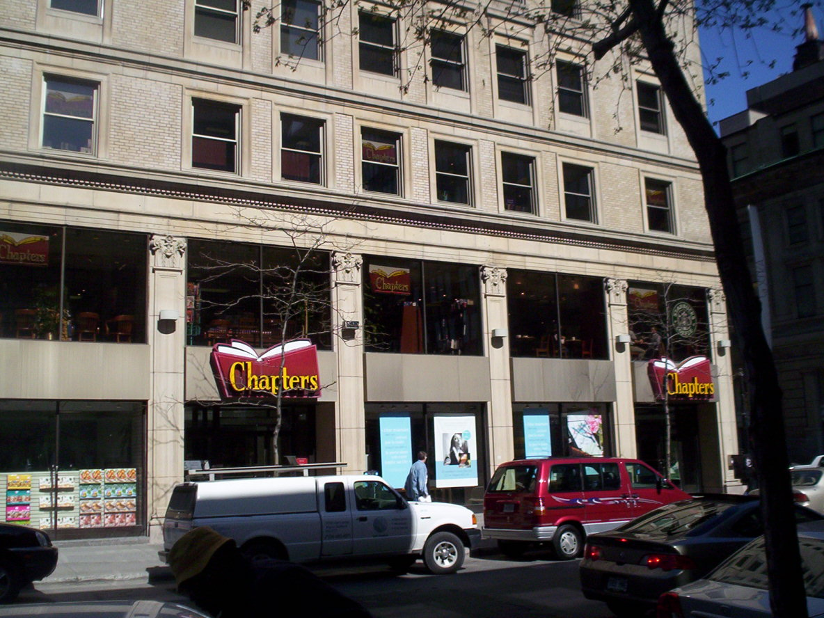 I took this photo during a walk downtown